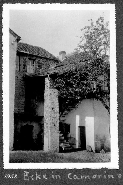 House in Camorino, Ticino, Switzerland in 1932